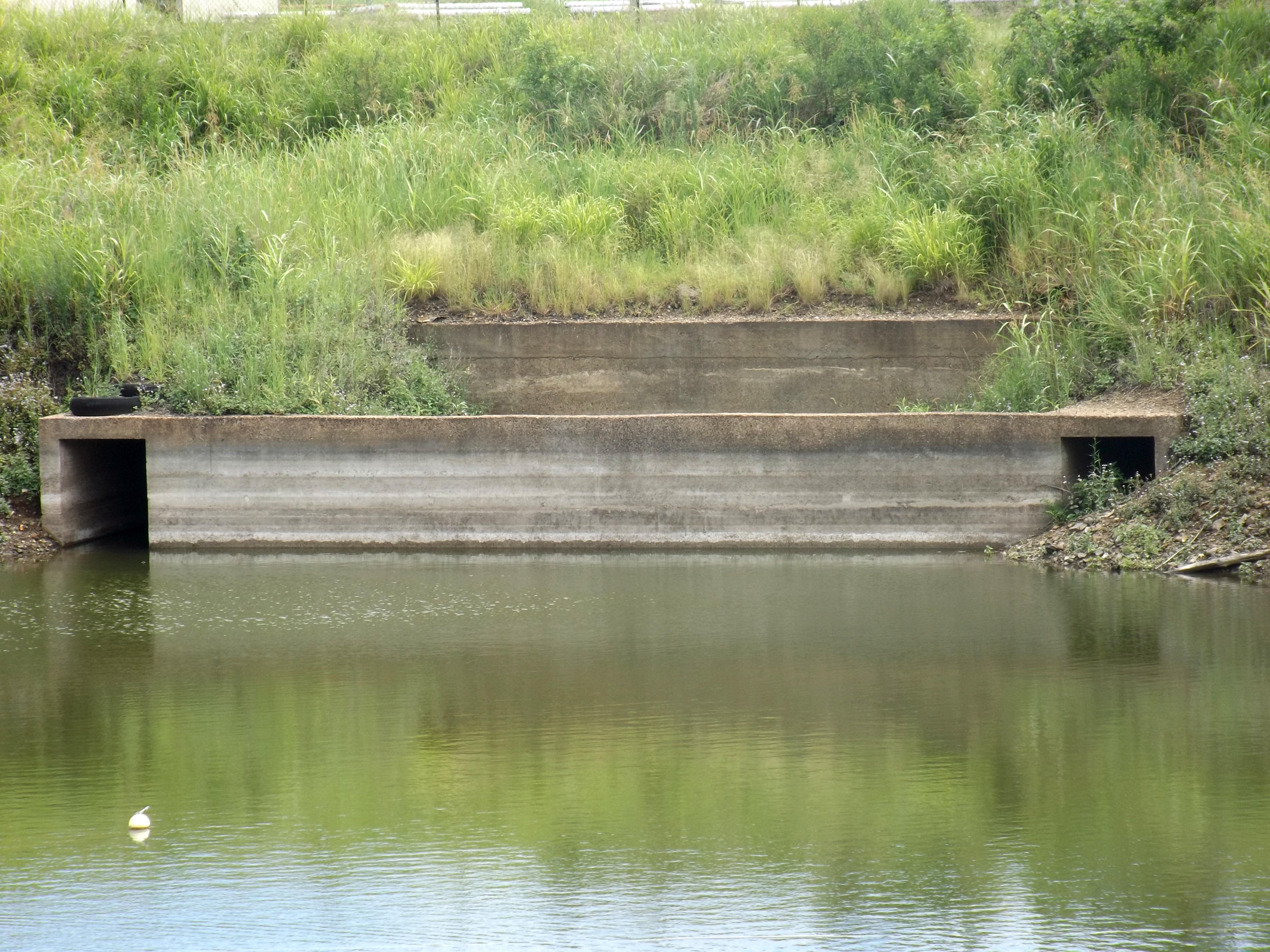 Photo of partially submerged Air Raid Shelter at Acacia Ridge, Brisbane, Queensland, Australia.